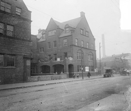 Hull House, Smith Hall, view north on South Halsted